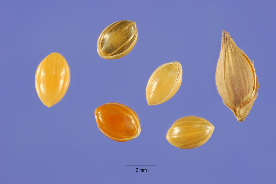 This is a millet type called proso millet.